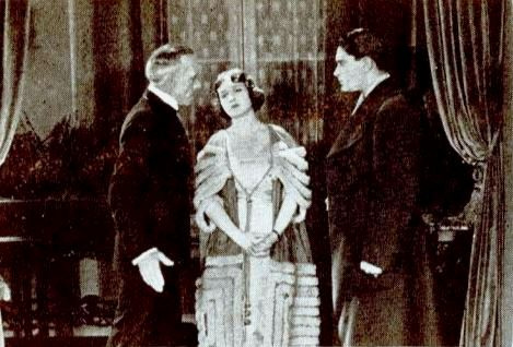 Still from the American film Beau Revel (1921) with Lewis Stone, Florence Vidor, and Lloyd Hughes, on page 17 of the September 1920 Silver Sheet.